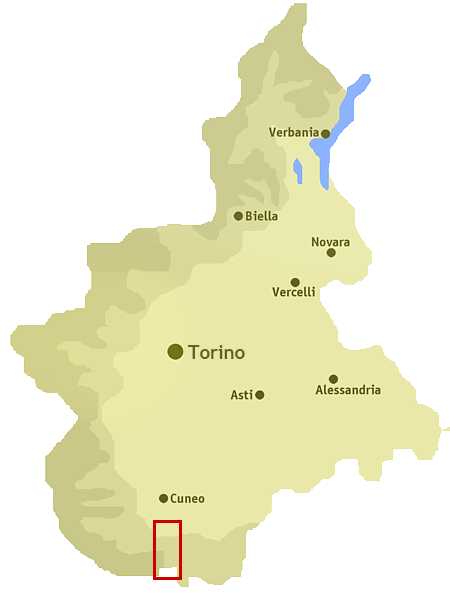 Position of the "Valle Vermenagna" valley in Maritime Alps